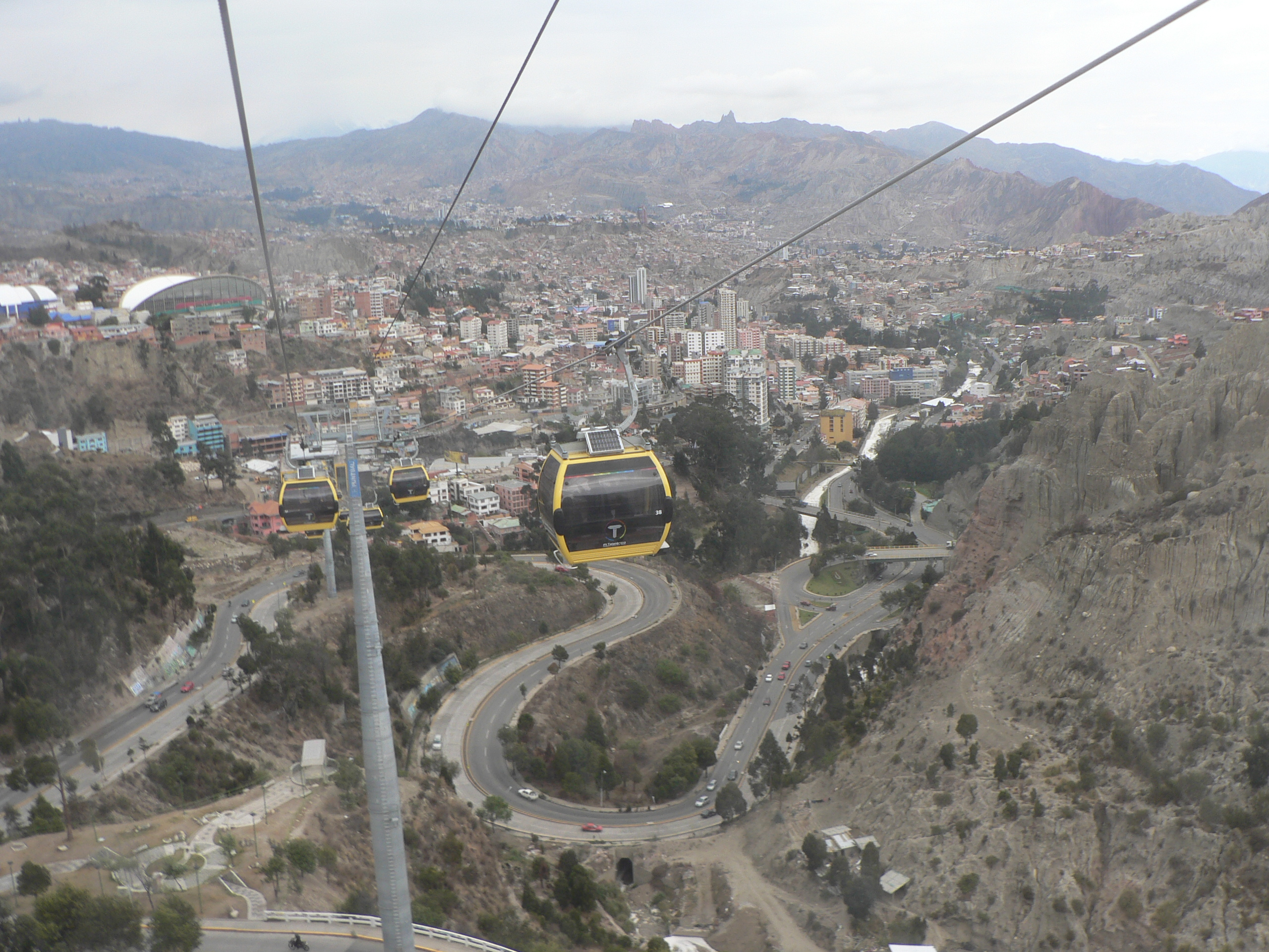 La Paz, Teleferico, yellow line